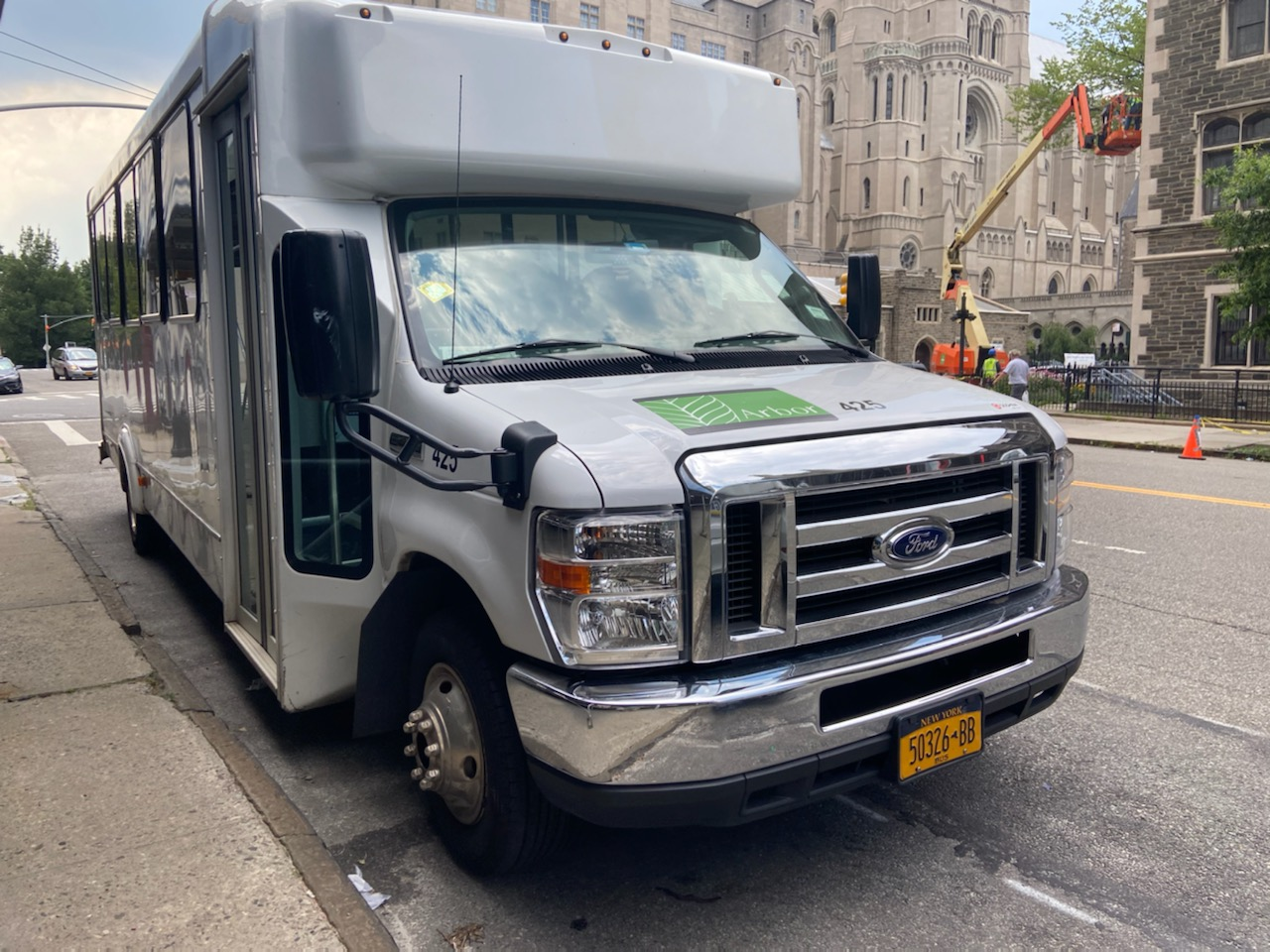 Columbia Facilities Arbor Shuttle Ford E-450 Cutaway Bus #425